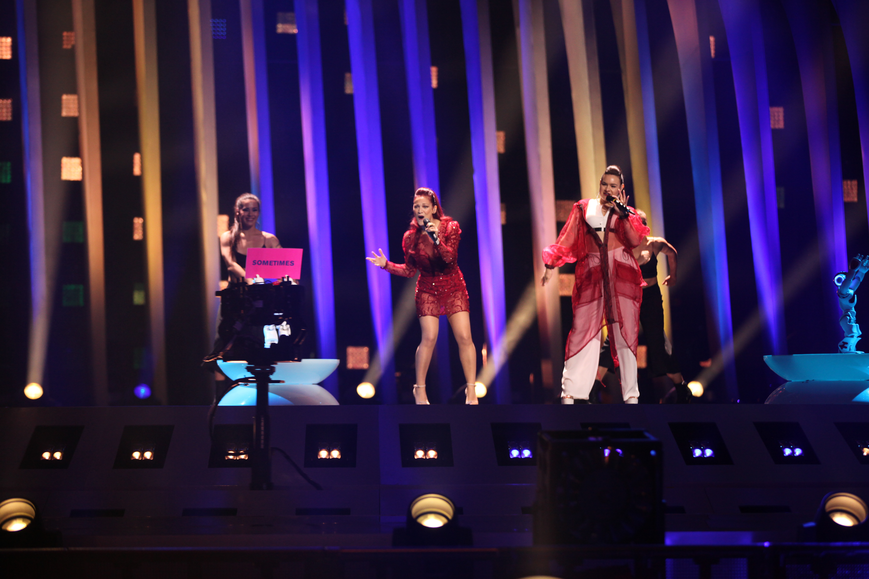 Jessika feat. Jenifer Brening representing San Marino with the song "Who We Are" during a rehearsal before the second semi final of the Eurovision Song Contest 2018 in Lisbon.